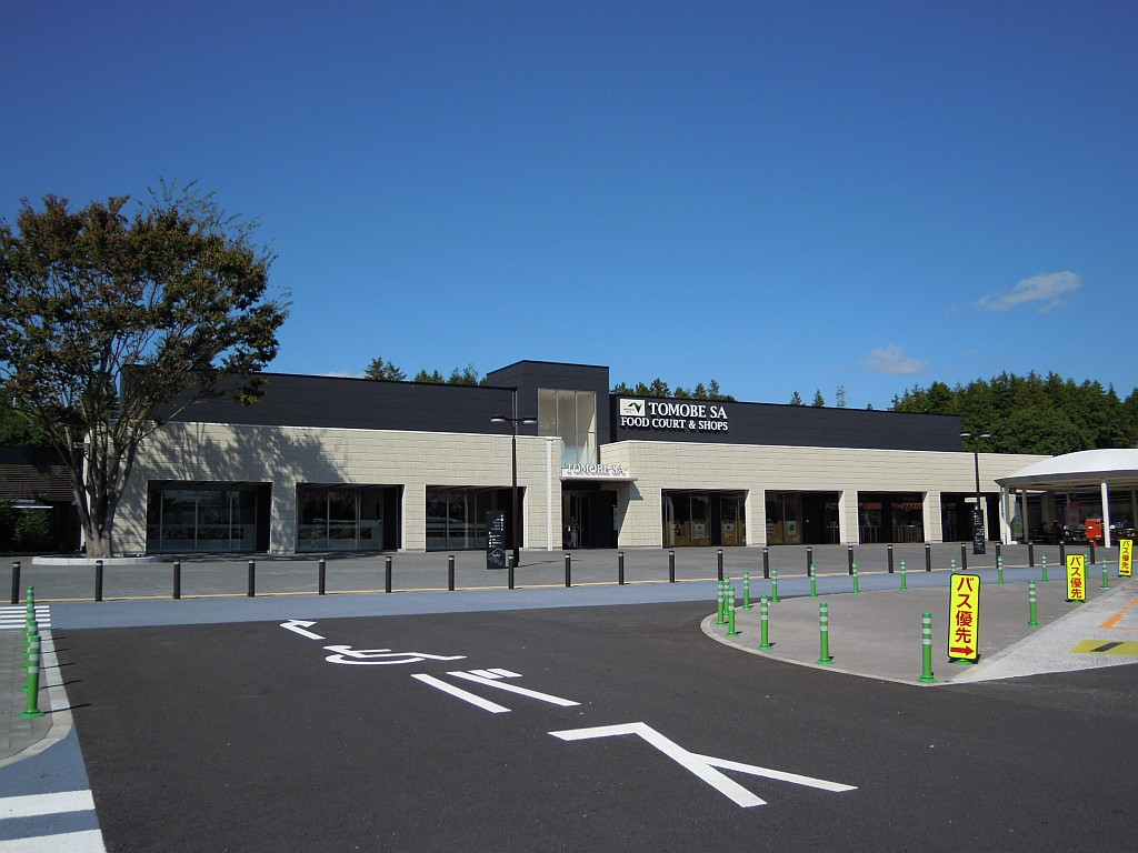 Tomobe Service Area on the Joban Expressway outbound line for Sendai, in Kasama City, Ibaraki Prefecture, Japan